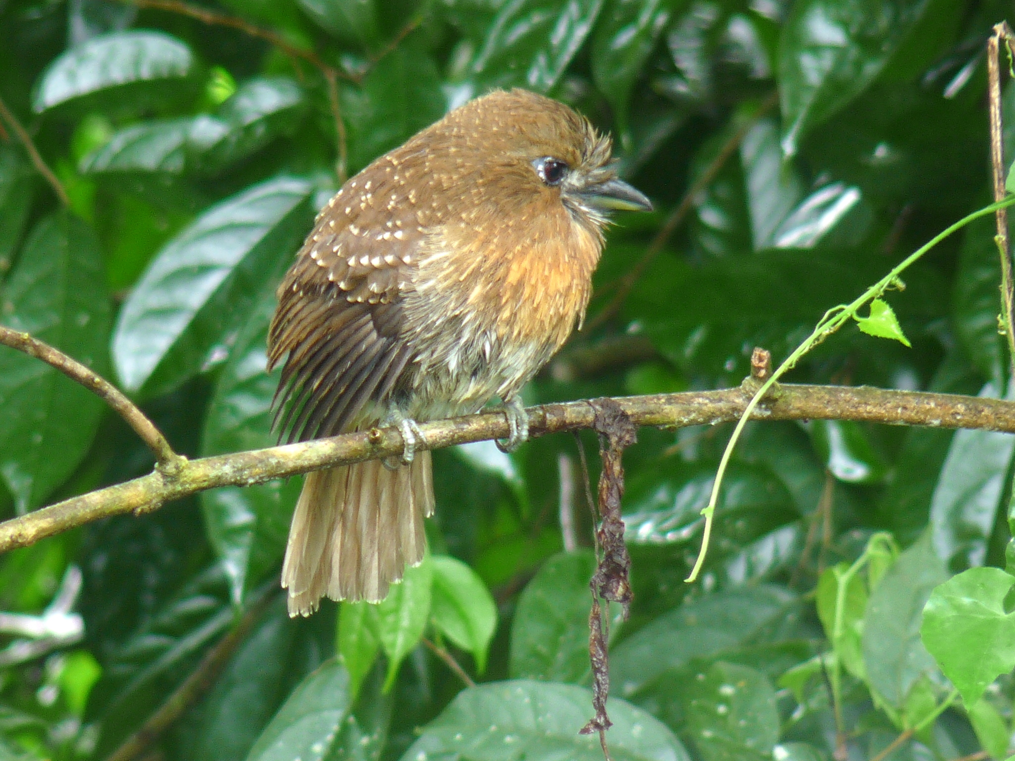 A Moustached Puffbird in Manizales, Caldas, Colombia.